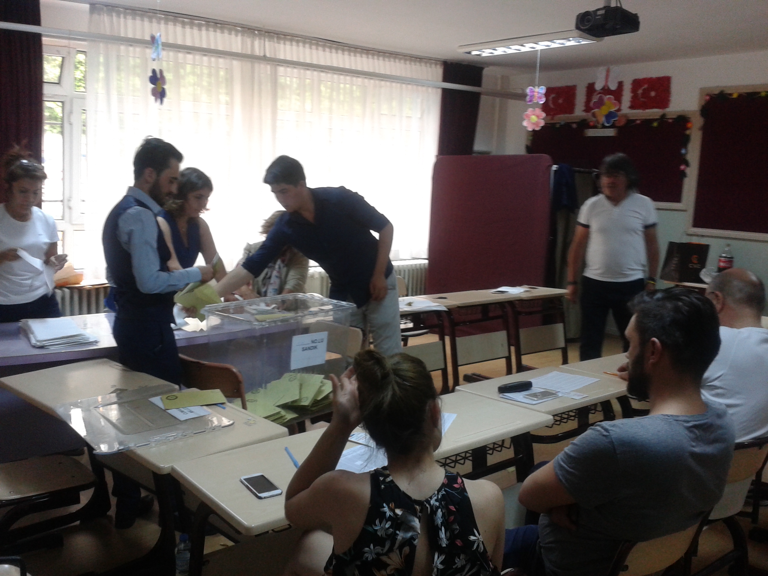 2018 General Elections in Turkey: Ballot counting at a voting station (school) in Çankaya, Ankara.